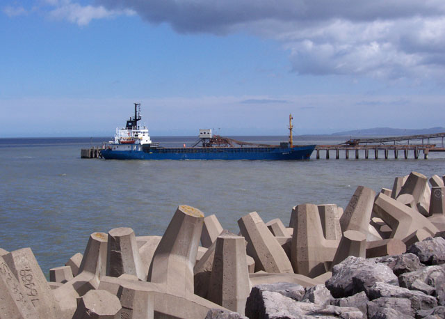 Doris T Vessel Doris T preparing to leave the Raynes Quarry loading jetty with a load of crushed limestone bound for Dagenham on the Thames (thanks to AIS Liverpool). Ships are loaded at the jetty two or three times per week on average, making a very significant contribution to the quarry output.